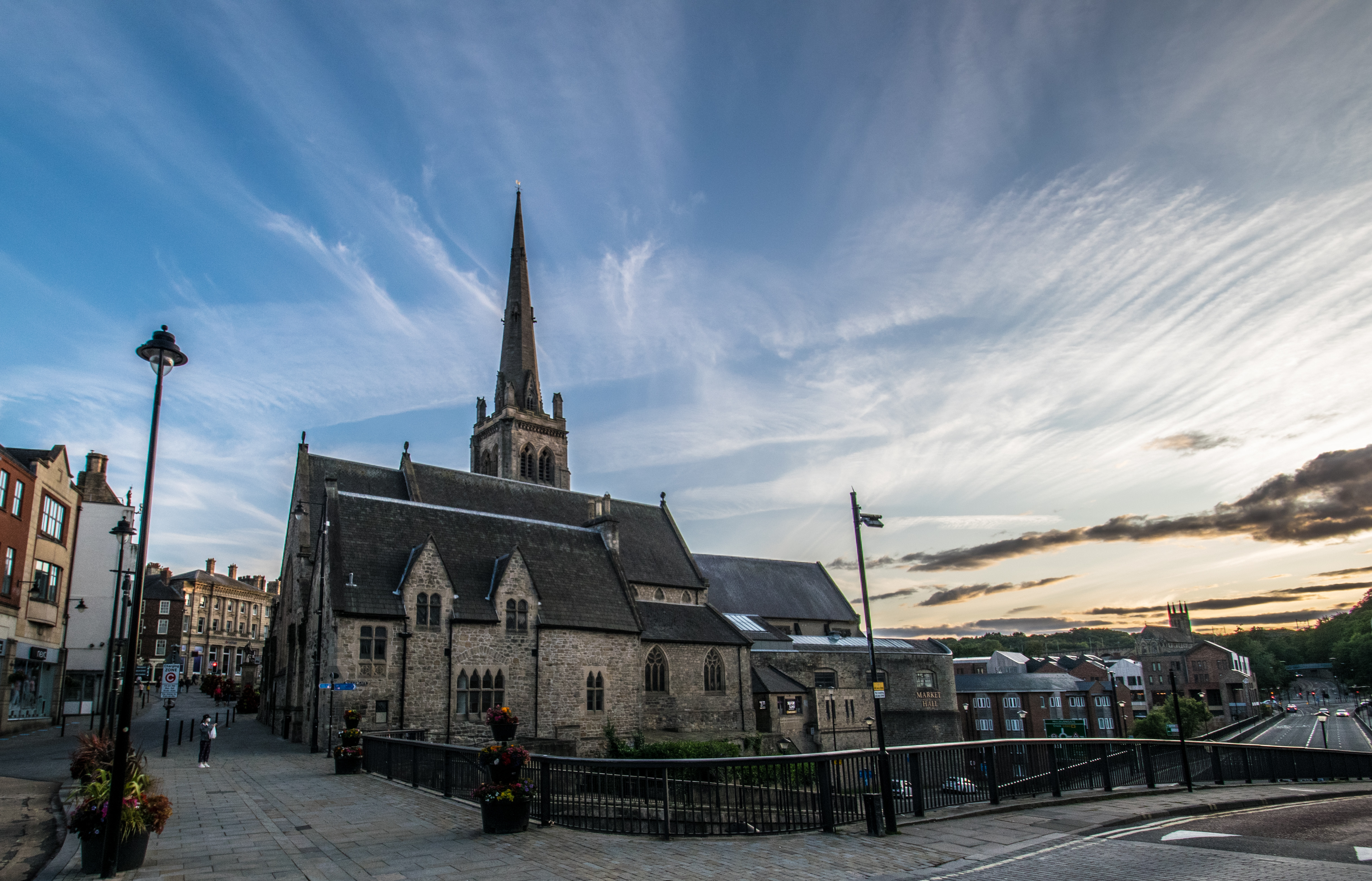 Rear view of St Nicholas' Church, Durham, showing its compact design with the church hall as part of the same structure.